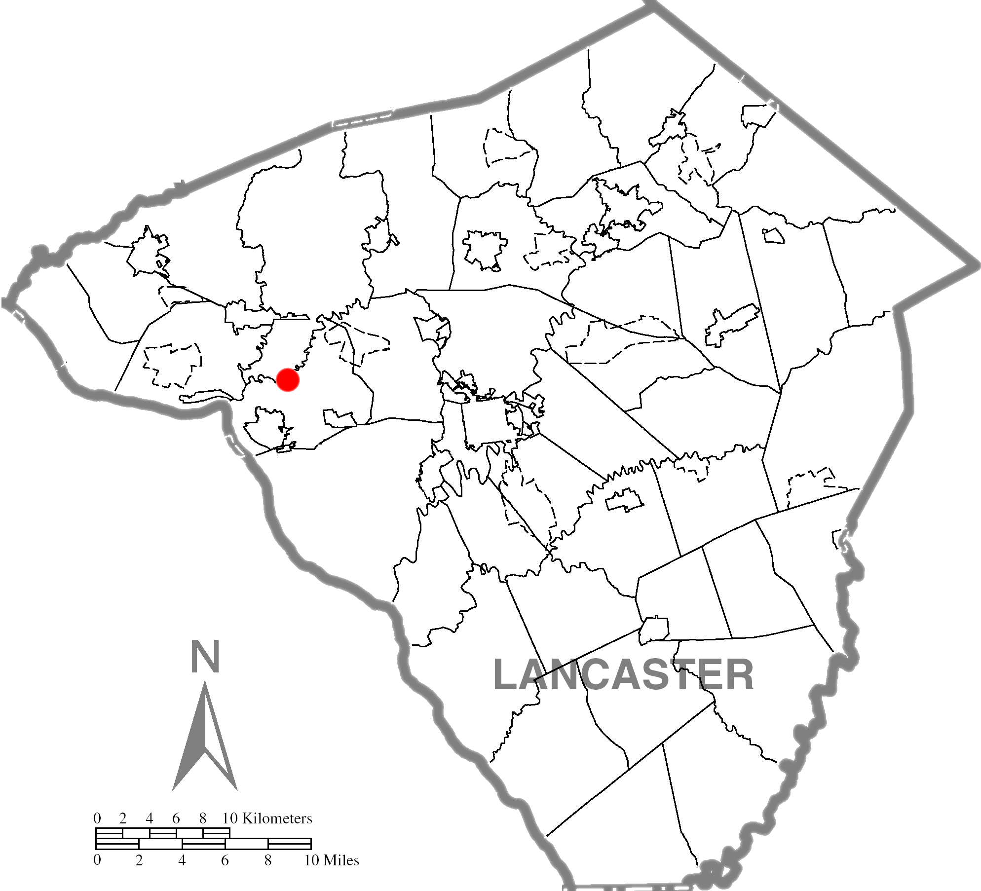 Lancaster County dot map of the Forry's Mill Covered Bridge.